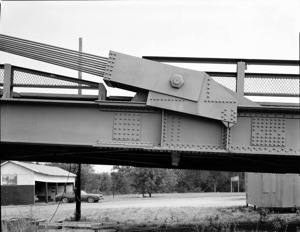 Hutsonville Bridge image, showing self anchored cables, retrieved from Historic American Engineering Record